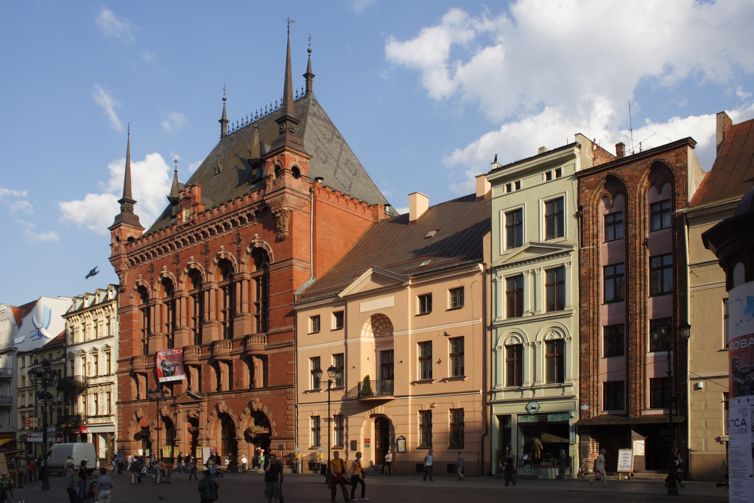 Toruń, Poland, Old-Town Market Square